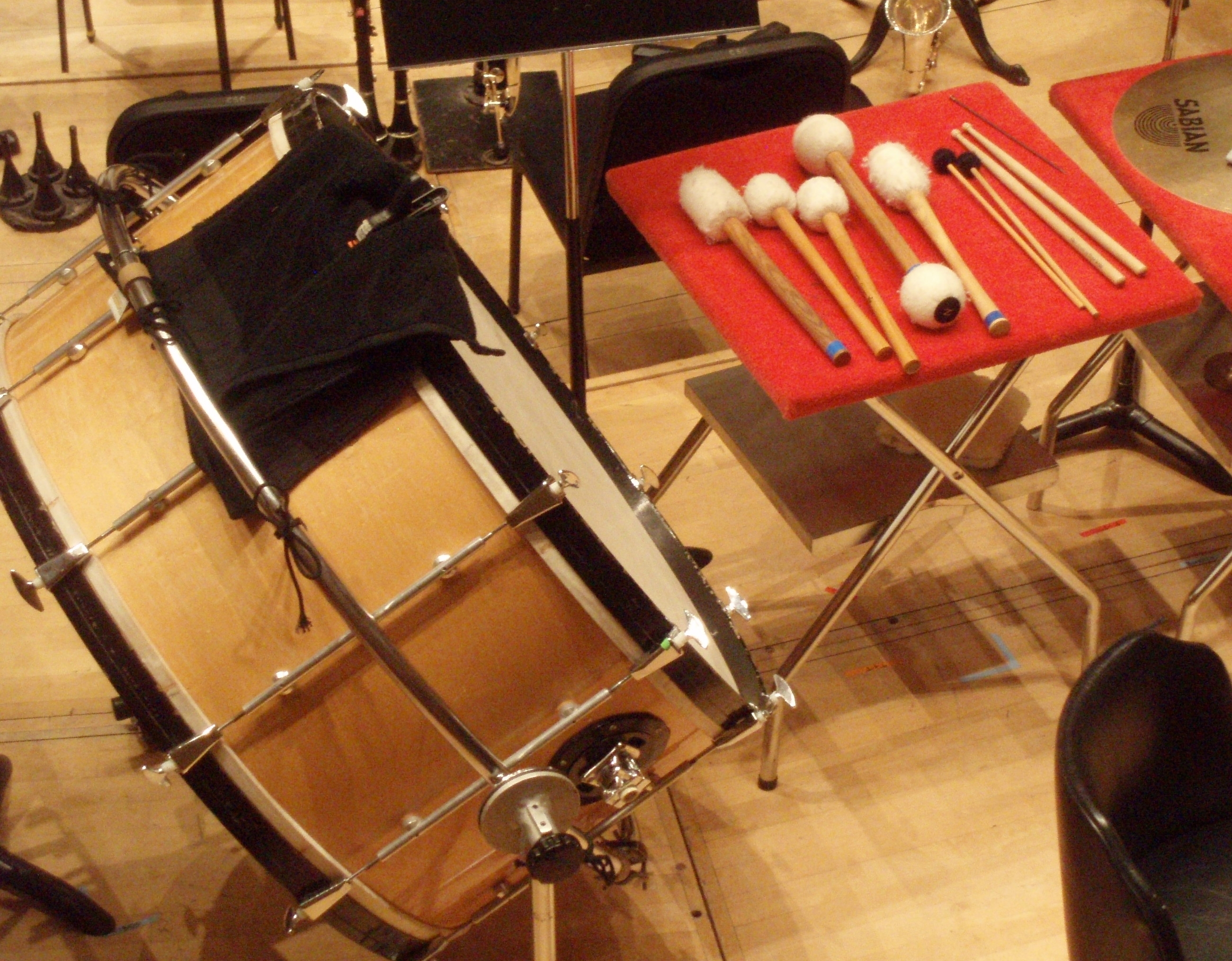 Bass drum mallets.